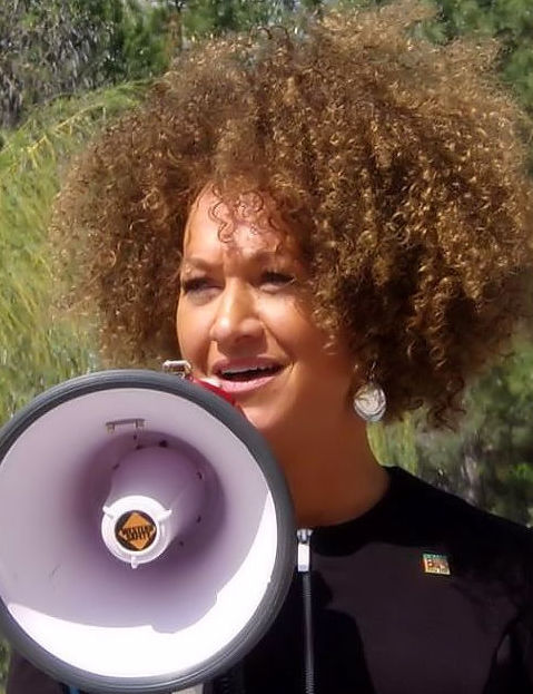 Rachel Dolezal speaking at Spokane civil rights rally, May 2015, one month before she was exposed as being white rather than African American